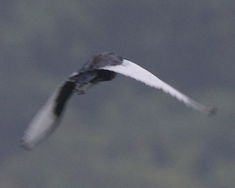 Bengal Florican (Houbaropsis bengalensis). Kaziranga National Park, Assam (India), April 15, 2008. From original description: "Not a shot to be proud of, early morning light and shooting hand held on an ungainly elephant. Record shot posted till I can return and get a decent shot. [...] 690V3716"